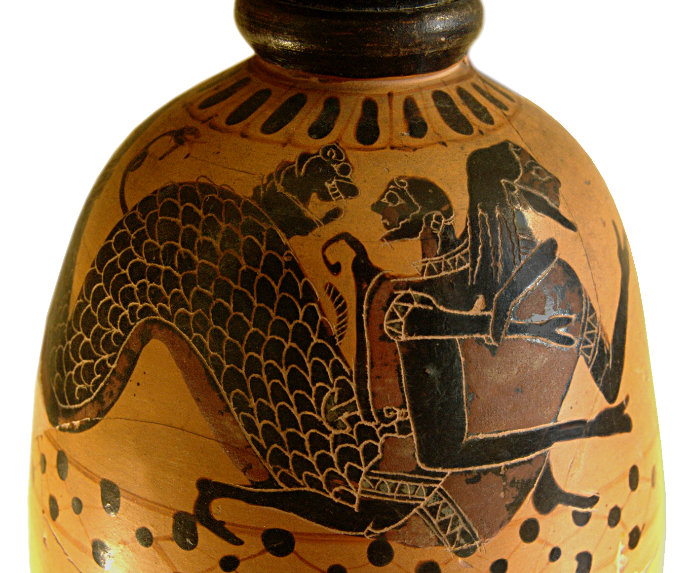 Heracles and Nereus. Top of a black-figure lekythos, ca. 590–580 BCE. From Boeotia. The original photograph was uploaded by User:Bibi Saint-Pol, 2007-06-01. This version of the image has been resided for deeper dpi, slightly cropped, edited to reduce glare, and the background has been changed to solid white.